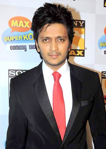 Riteish Deshmukh at the Promotion of 'Kyaa Super Kool Hain Hum'